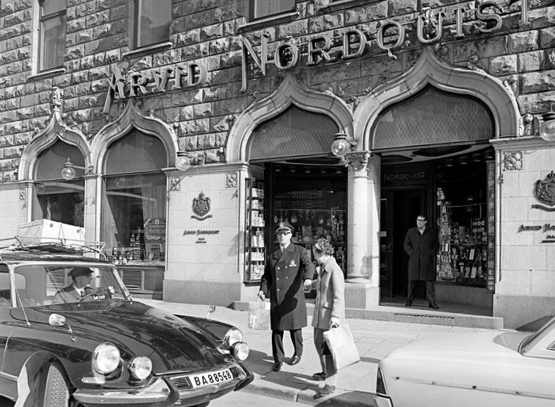 FOTOGRAFIBirger Jarlsgatan 24. Arvid Nordqvist handels AB. 1968-1968FOTOGRAF: Petersens, Lennart af.BILDNUMMER: F 82007Stockholms stadsmuseum, Sweden